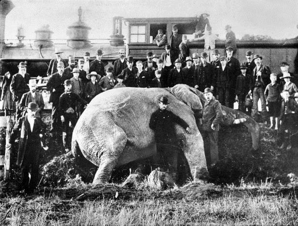 Jumbo after his collision with a locomotive on September 15, 1885 in St. Thomas, Ontario